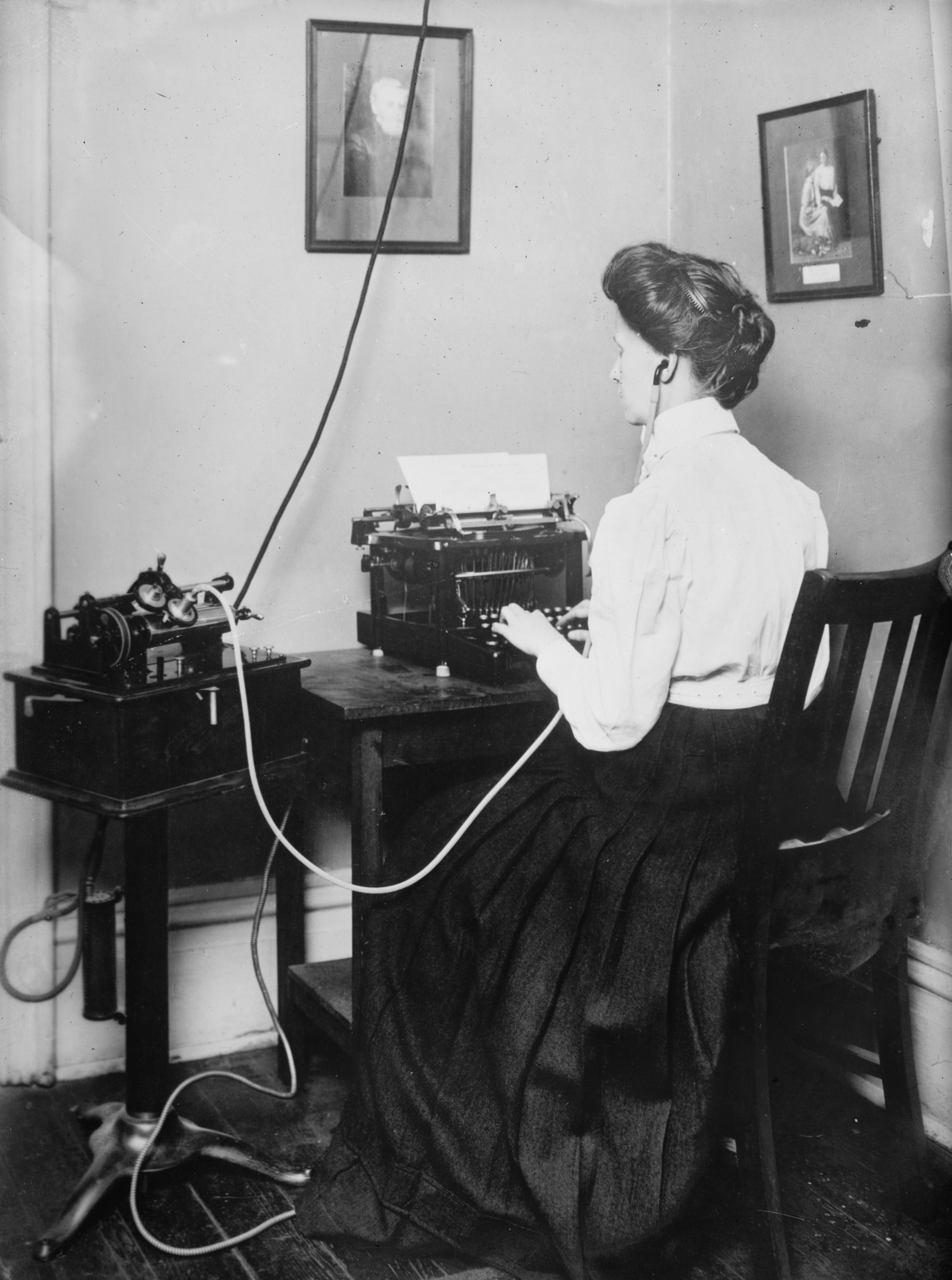 Blind stenographer from the wikipedia: Overbrook School for the Blind using a wikipedia: dictaphone in 1911